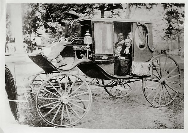 An image of Greenwood Leflore's Horse Carriage from the mid-1800s, Leflore was a Choctaw chief and one of the first Native American U.S. Citizen.